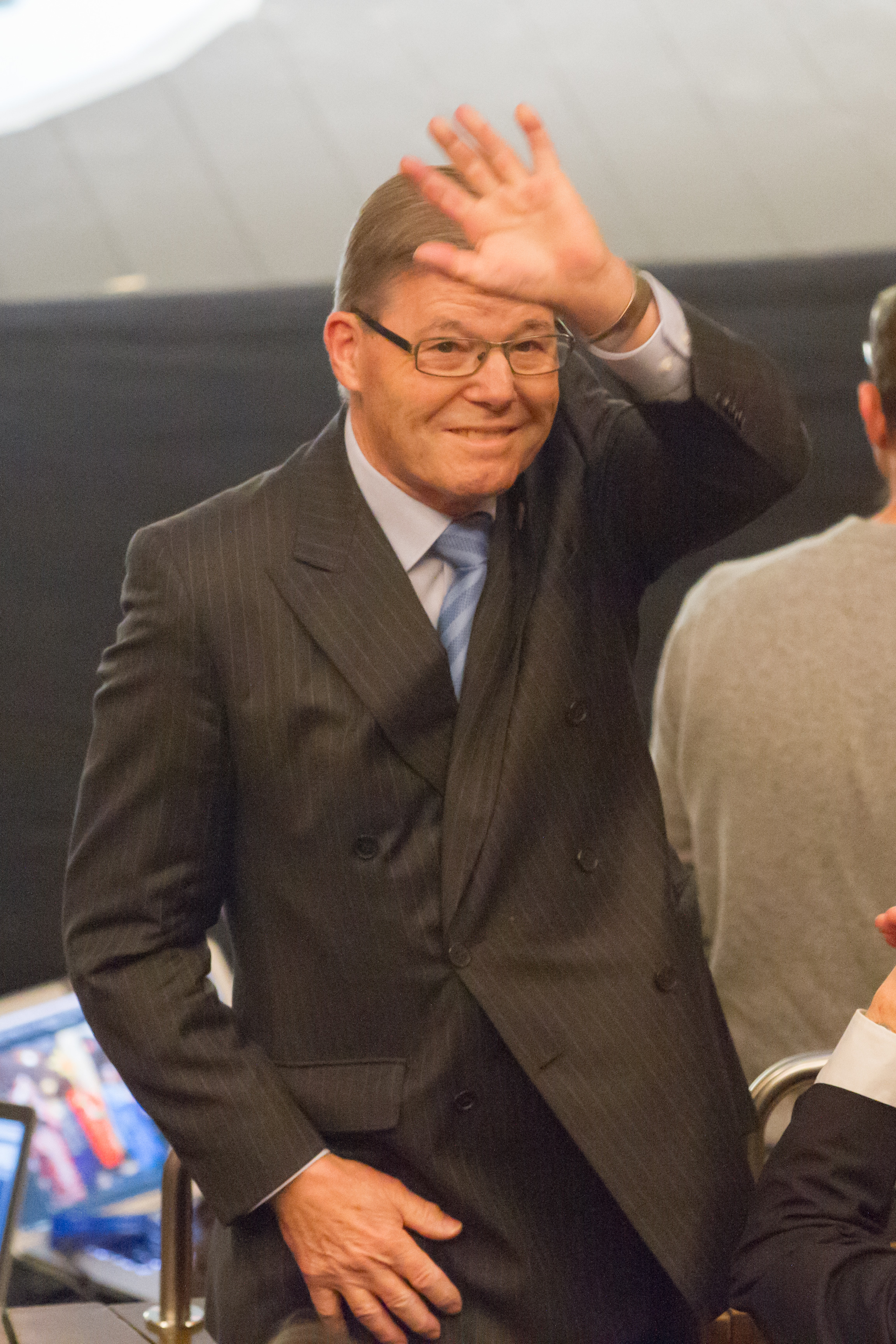 Series: Liberals' Epiphany rally hosted by the FDP Baden-Württemberg in the opera house of Stuttgart on January 6, 2015 Image: Hermann Scholl